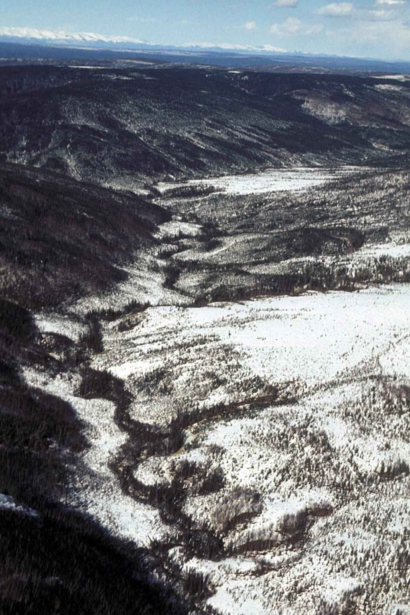 Image title: Nowitna River area, Alaska, USA Image from Public domain images website